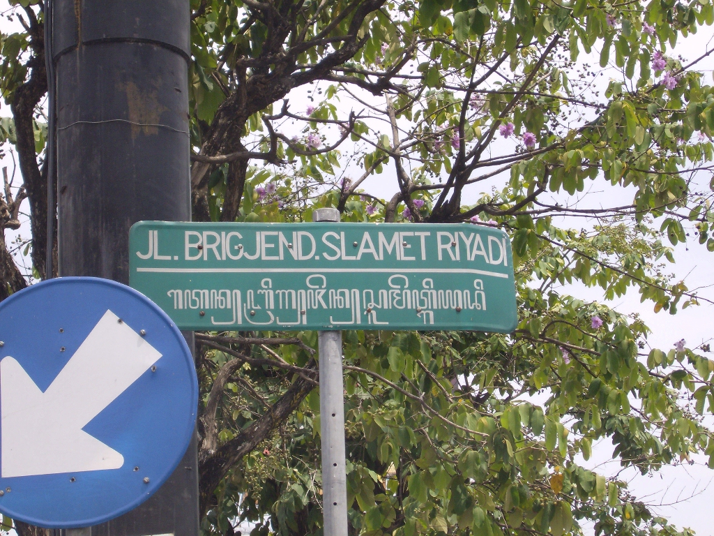 Jalan Brigjend Slamet Riyadi - roadsign in Surakarta/Solo in Central Java - upper in roman, lower in javanese script